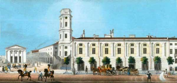 A piece of Nevsky prospect panorama. A lithogarph by I. A. Ivanov from a painting by V. S. Sadovnikov. 1830s.